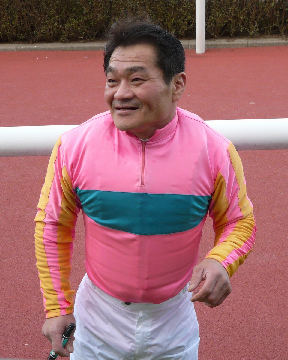 Kusuhiko-Hamaguchi20100314